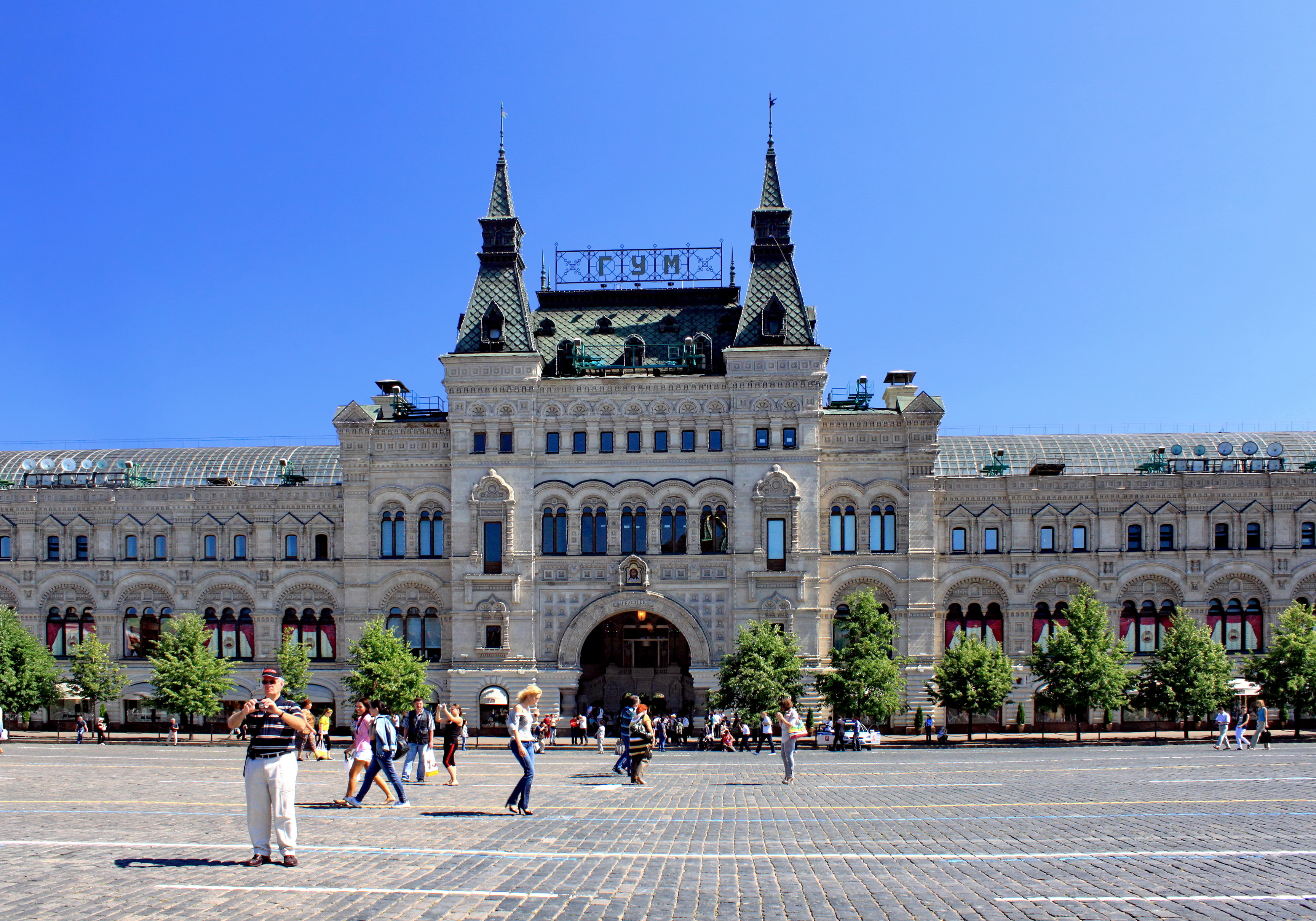 GUM (department store). Red Square, Moscow, Russia.